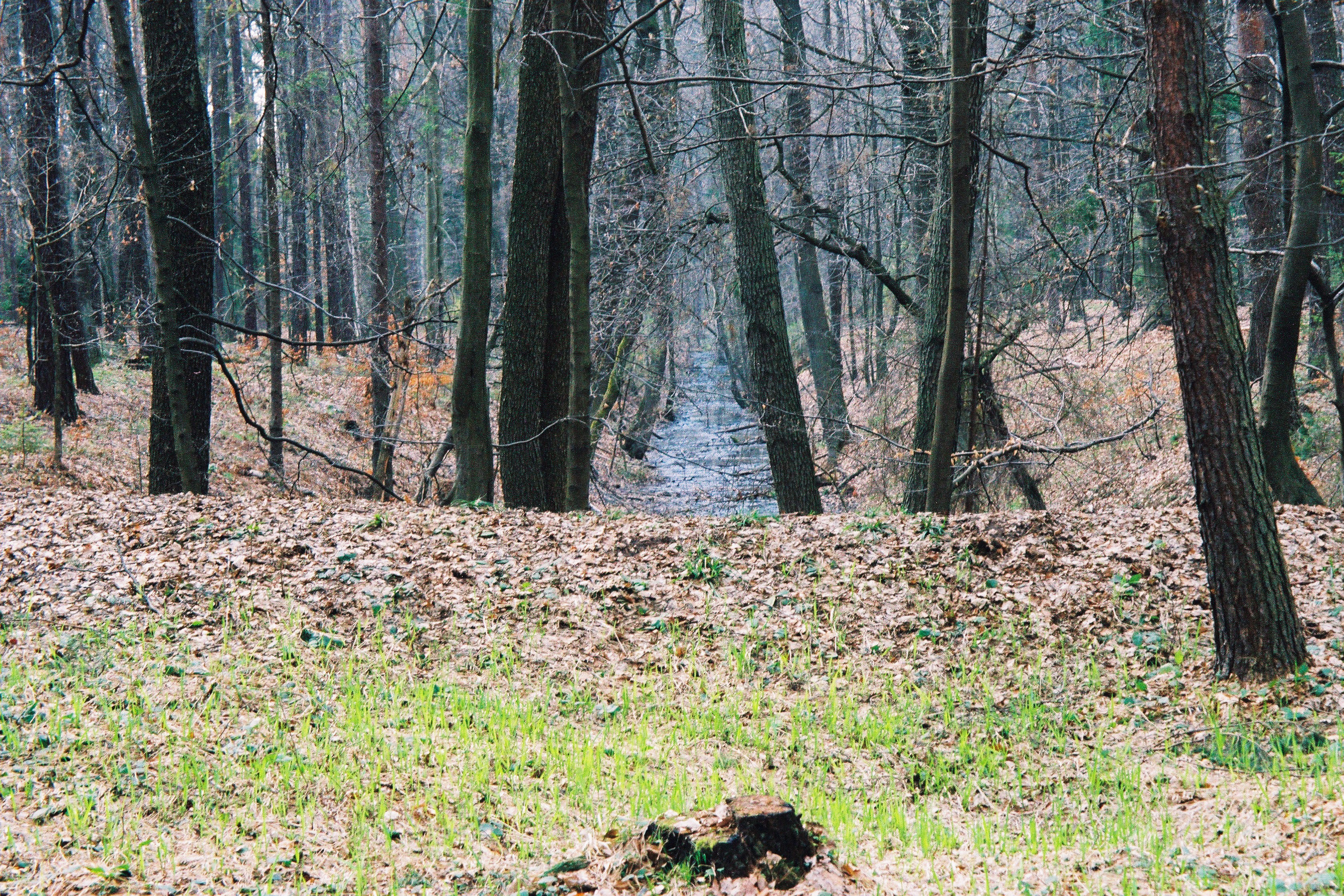 Zumpy - village in Gmina Boronów, Poland, sztolnia Author: Przykuta 22:46, 26 April 2006 (UTC) Date: April 2006